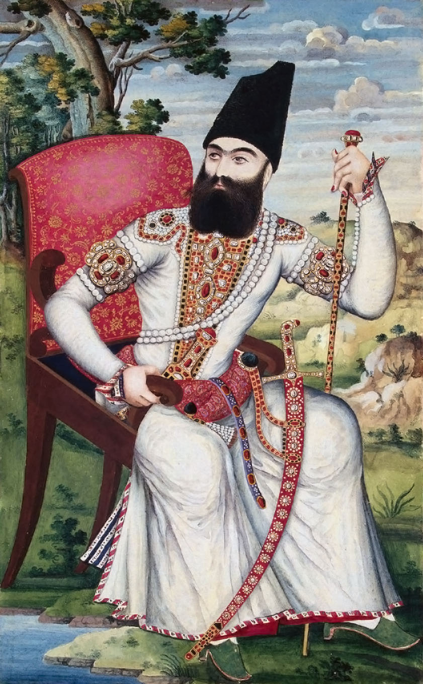 Portrait of Abbas Mirza, Hermitage